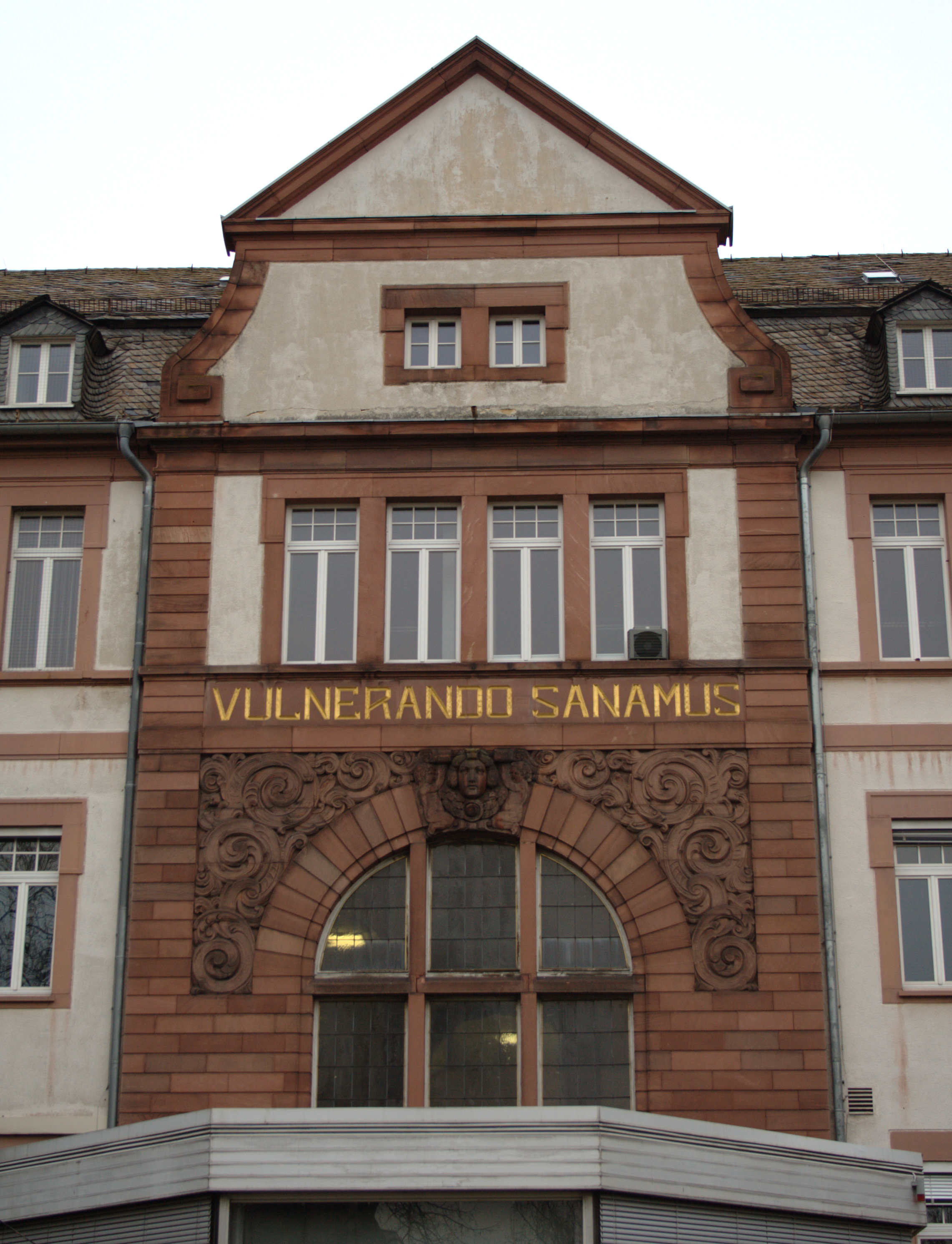 Building (detail) in Giessen Kilnikstraße 29 / Hesse / Germany